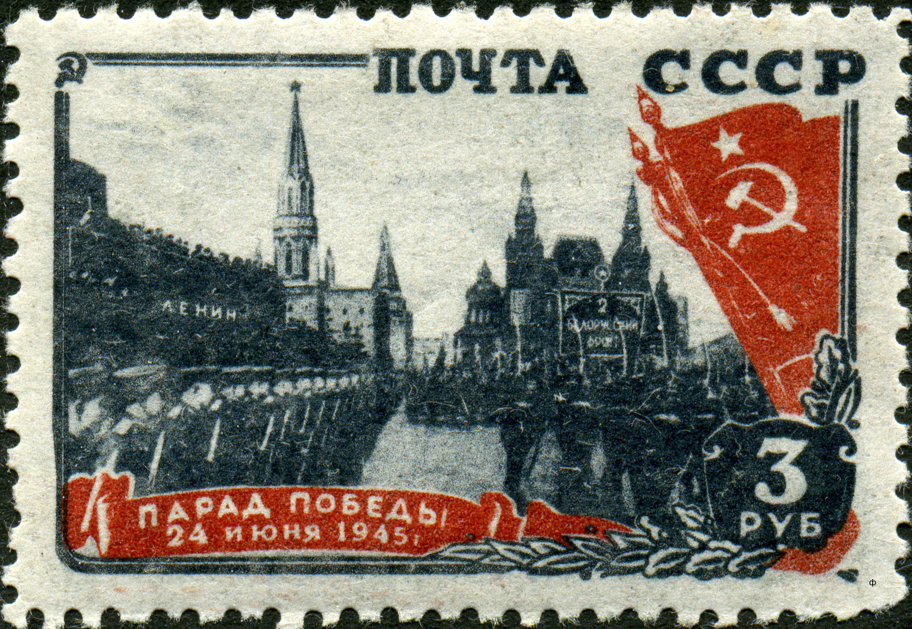 A USSR stamp of 1946. Victory Parade on June 24, 1945 in the Red Square. Lenin's Mausoleum. CFA #1029.